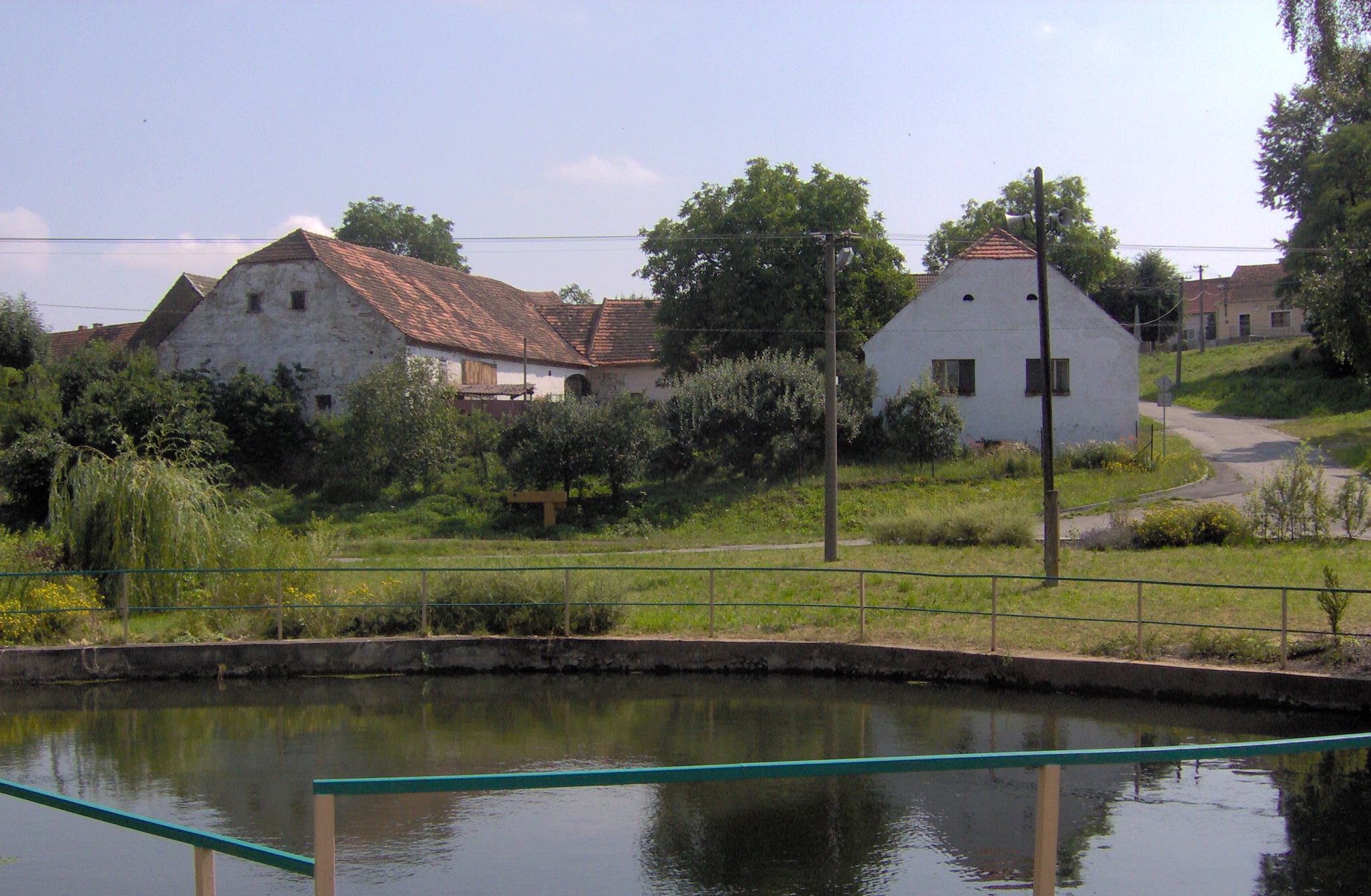 Pond in Milejovice, Strakonice District, Czech republic